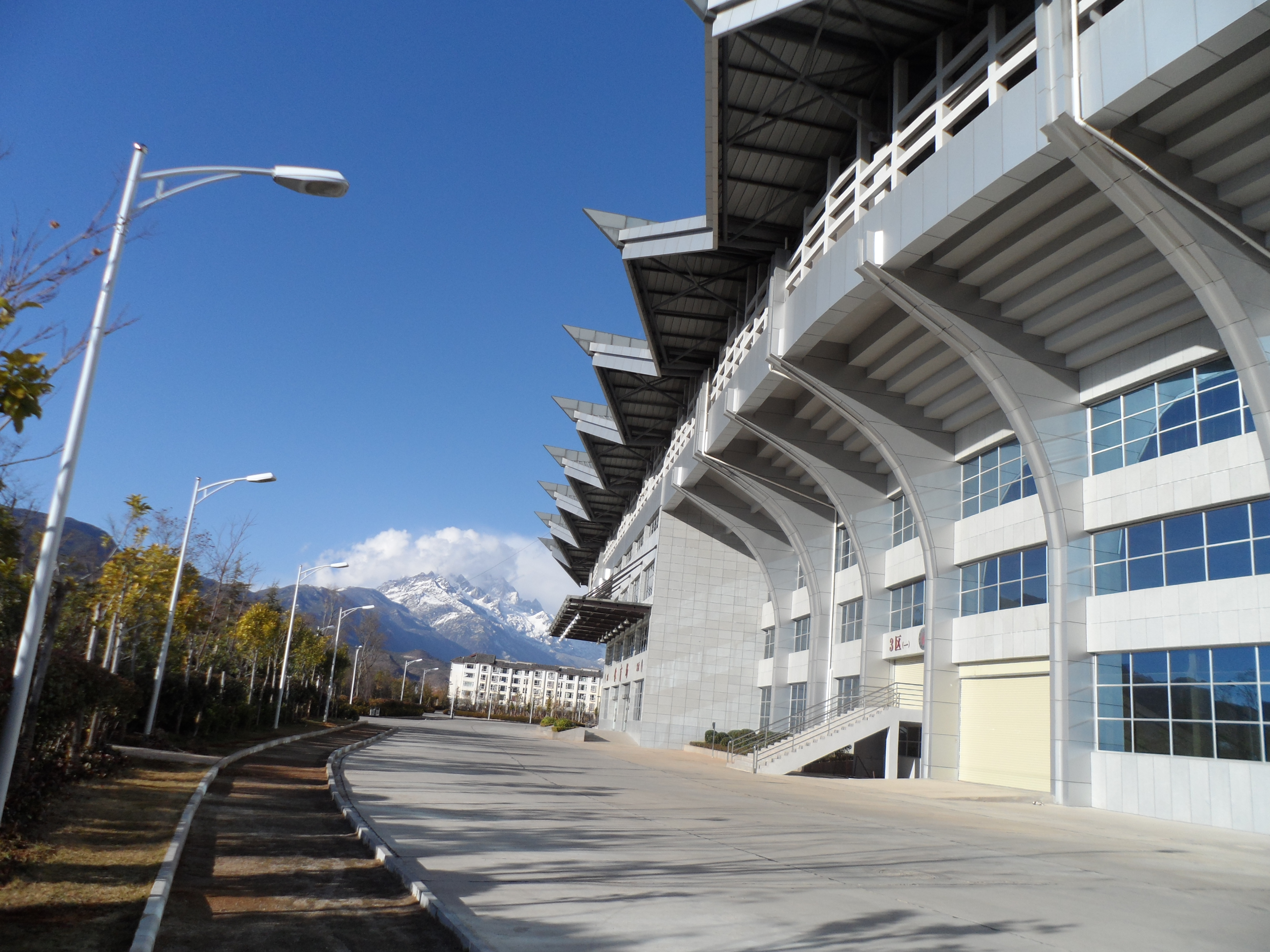 Lijiang Stadeum